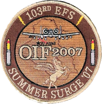 103d Expeditionary Fighter Squadron - Emblem